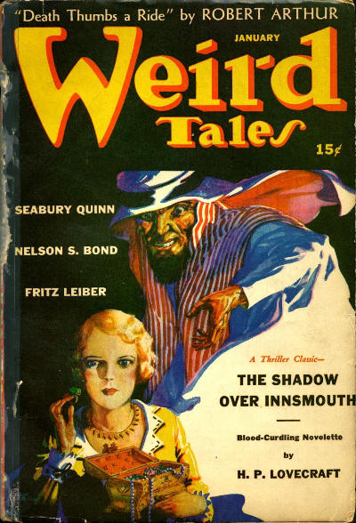 Cover of the pulp magazine Weird Tales (January 1942, vol. 36, no. 3) featuring The Shadow Over Innsmouth by H. P. Lovecraft. Cover art by Gretta.